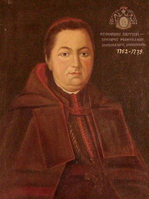 Portrait of the bishop Atanazy Szeptycki (1723-1779)